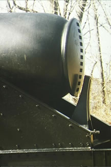 photo of the rear of a 15in Rodman gun